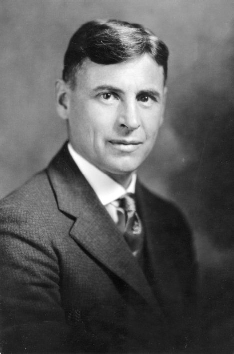 Portrait of Harry Gunnison Brown, circa age 40